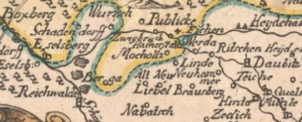 Crop from the map Image:Priebussischer Creis nebst Herrschaft Muska.png.